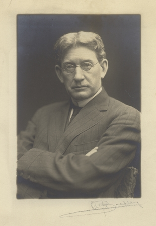 This digital image is a surrogate of an item from the Bennett Family Papers, 1882-1944. W. Bradley, photographer. Special Collections & Archives, UC San Diego, La Jolla, 92093. Library Digital Collections (repository): Scripps Institution of Oceanography Photographs.